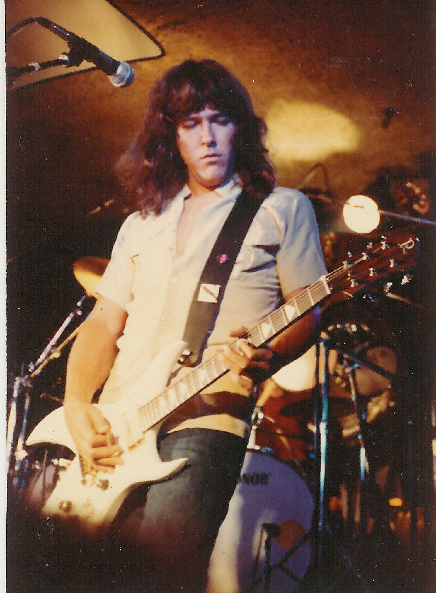 Randy Jackson playing with Zebra at a performance at the Long Island Club Rockaways in 1983, shortly after it had been announced that they'd been signed to Atlantic Records.